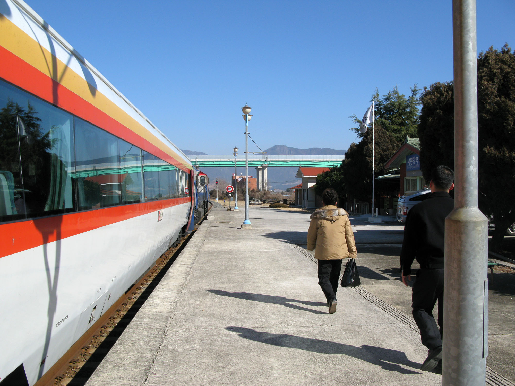 Gyeongjeon Line Nakdonggang Station Platform (To Samnangjin)